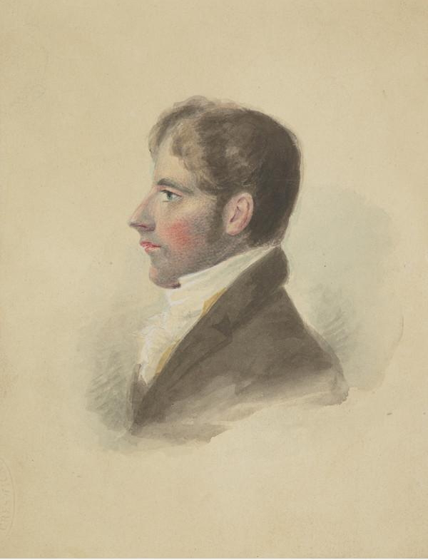 A portrait, possibly of William Stark, the architect (1770-1813)